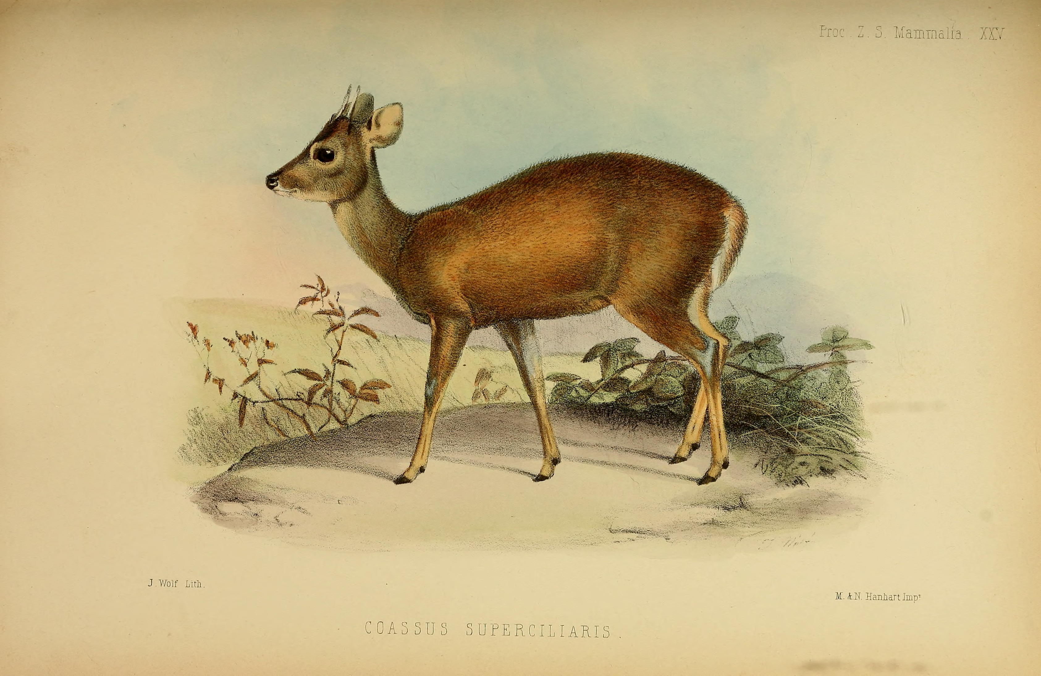 Eyebrowed Brocket buck from Knowsley Hall menagerie, 1850